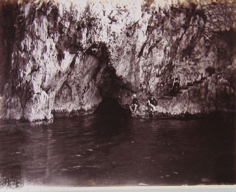 Giorgio Sommer (1834-1914) - "Capri - Blue grotto". Catalogue # 2148.